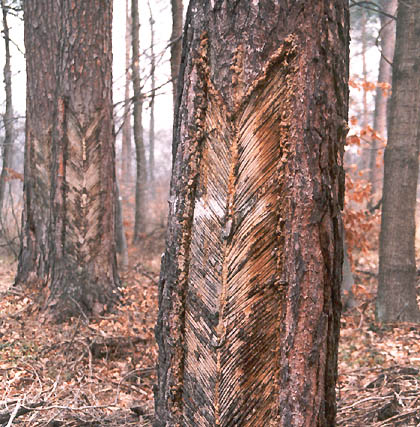 Pinus sylvestris in forest near Wiązownica-Kolonia, Poland. Used for resin production.